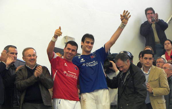 Álvaro Navarro Serra and Genovés II at the final match of the Trofeu Individual Bancaixa 2008.